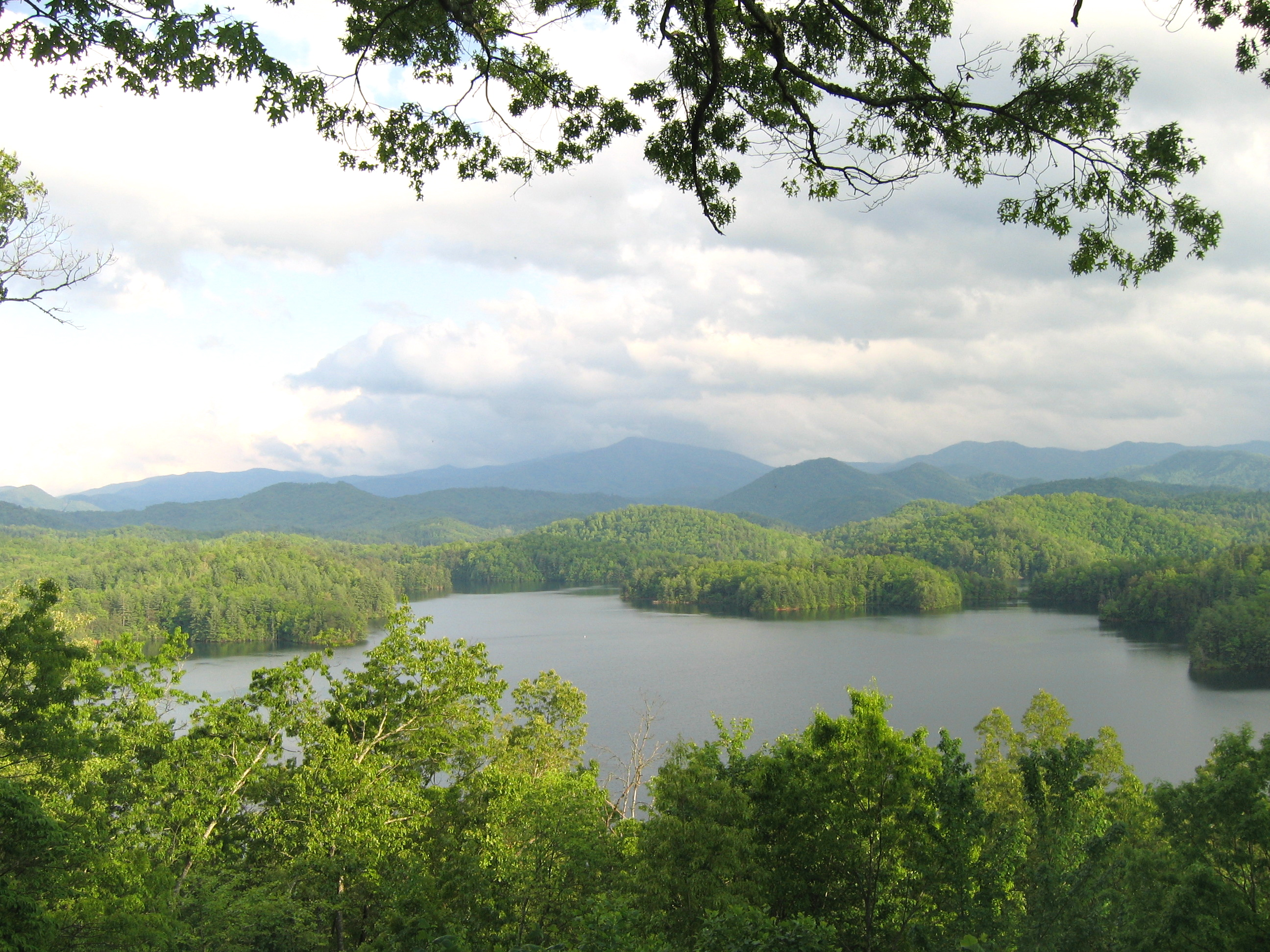 Lake Santeetlah, Graham County, North Carolina, USA